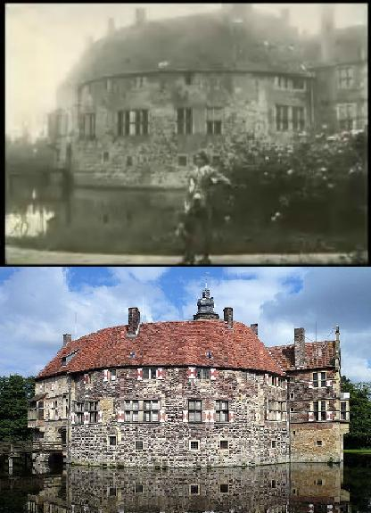 Photo of the castle of Wasserburg Vischering under by photo of Murnau's film "Der Knabe in Blau"